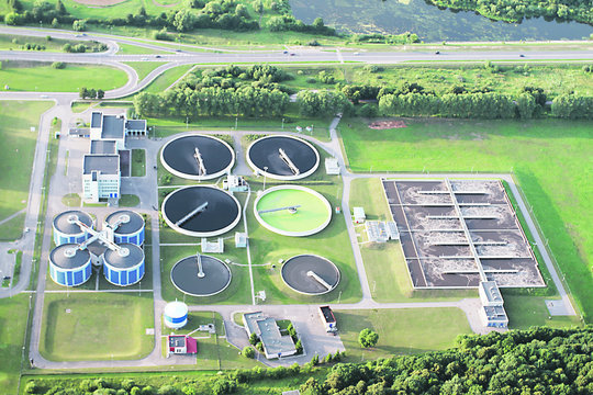 Wastewater treatment plant